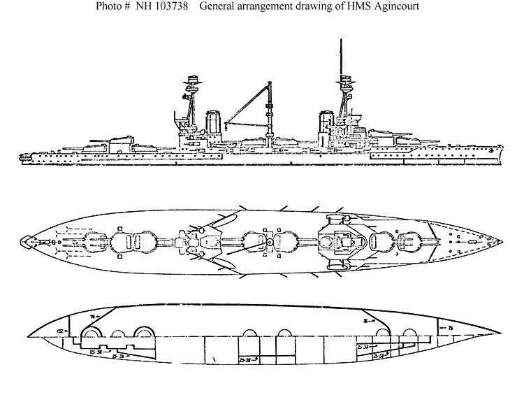 HMS Agincourt. (British Battleship, 1914) Drawing prepared by the Office of Naval Intelligence to show the ship's general arrangement in 1914-1916, after removal of boat stowage structure spanning the amidships gun turrets and before elimination of her tripod mainmast. It features a waterline outboard profile, topside plan and interior plans showing arrangement of armor plating. U.S. Naval History and Heritage Command Photograph.